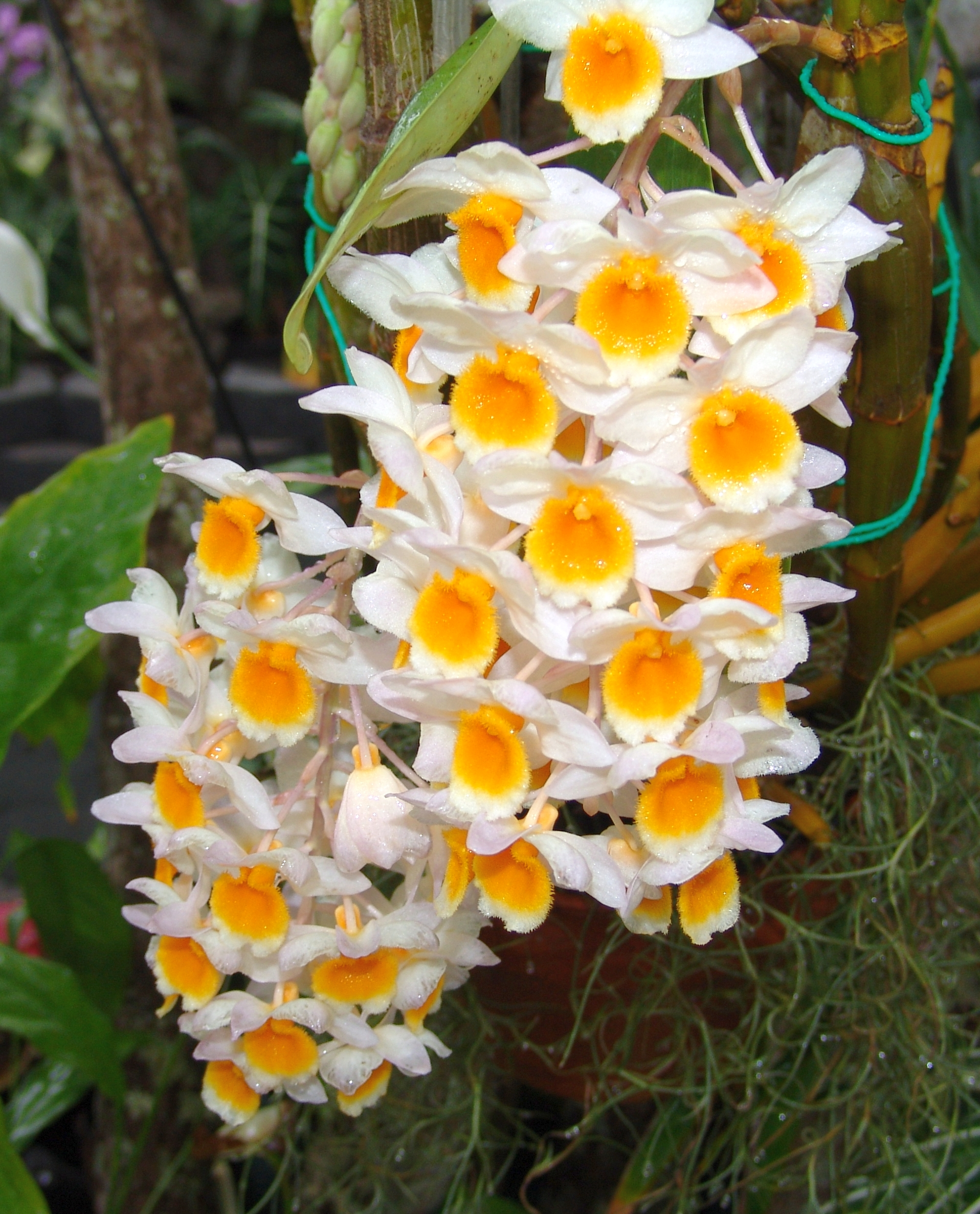 Foster Botanical Garden Oahu Hawaii